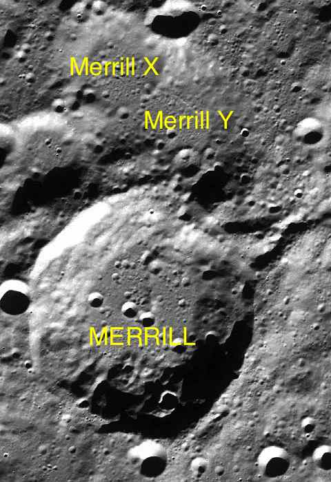 Part of the chart LAC-9 used for the presentation